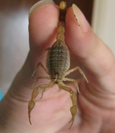 A lesser Asian scorpion, Mesobuthus eupeus, in human hand.